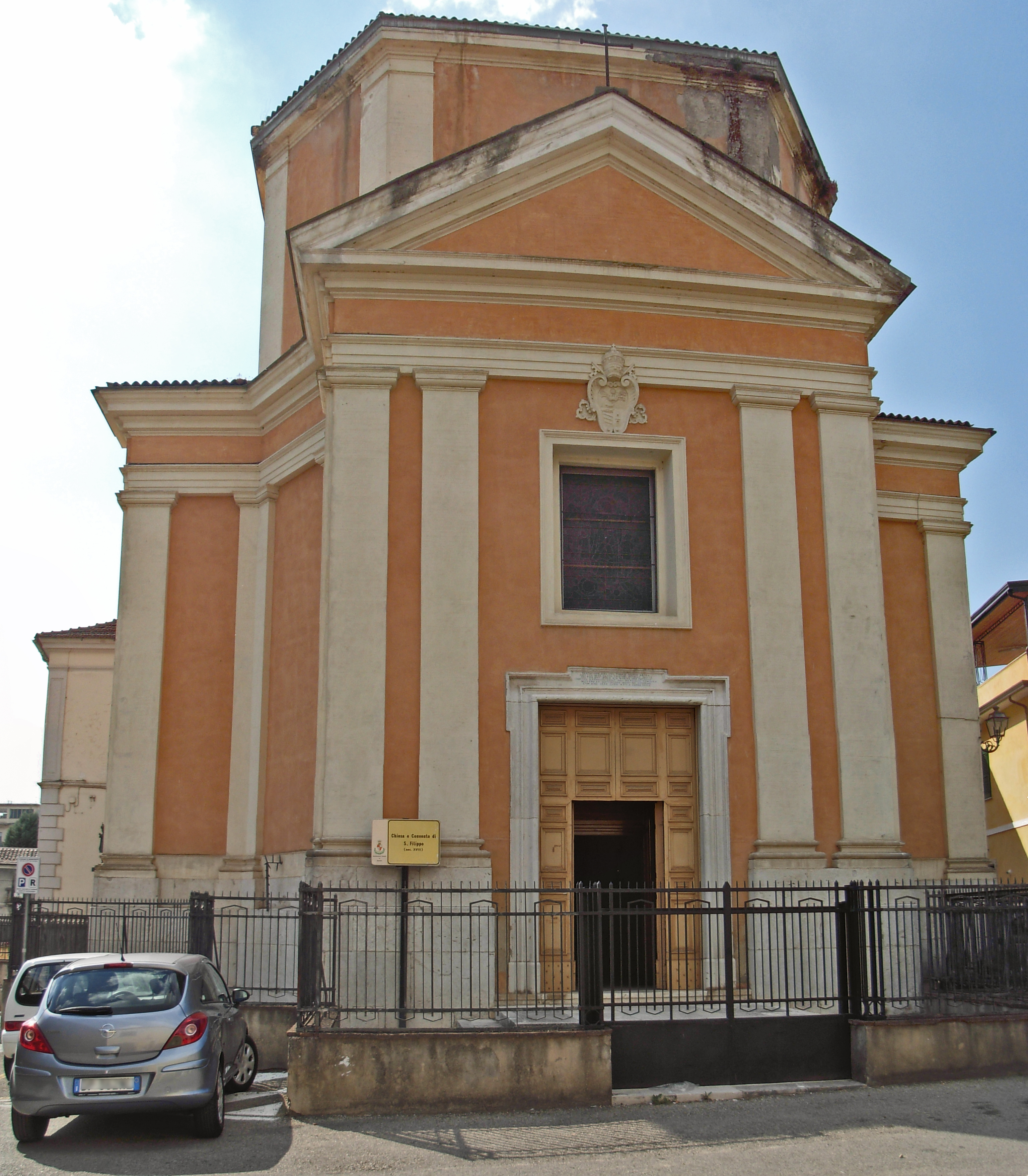 Façade of the church of San Filippo Neri in Benevento, Italy.